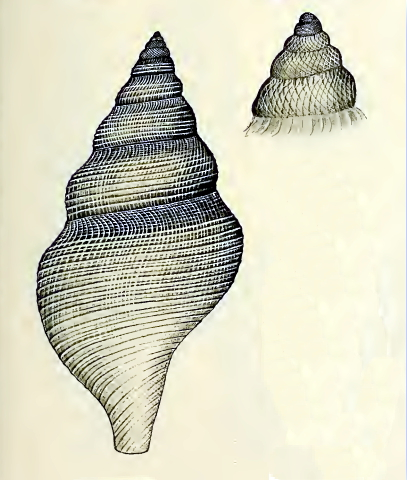 Daphnella stiphra Verco, 1909 ; family Raphitomidae; Australia